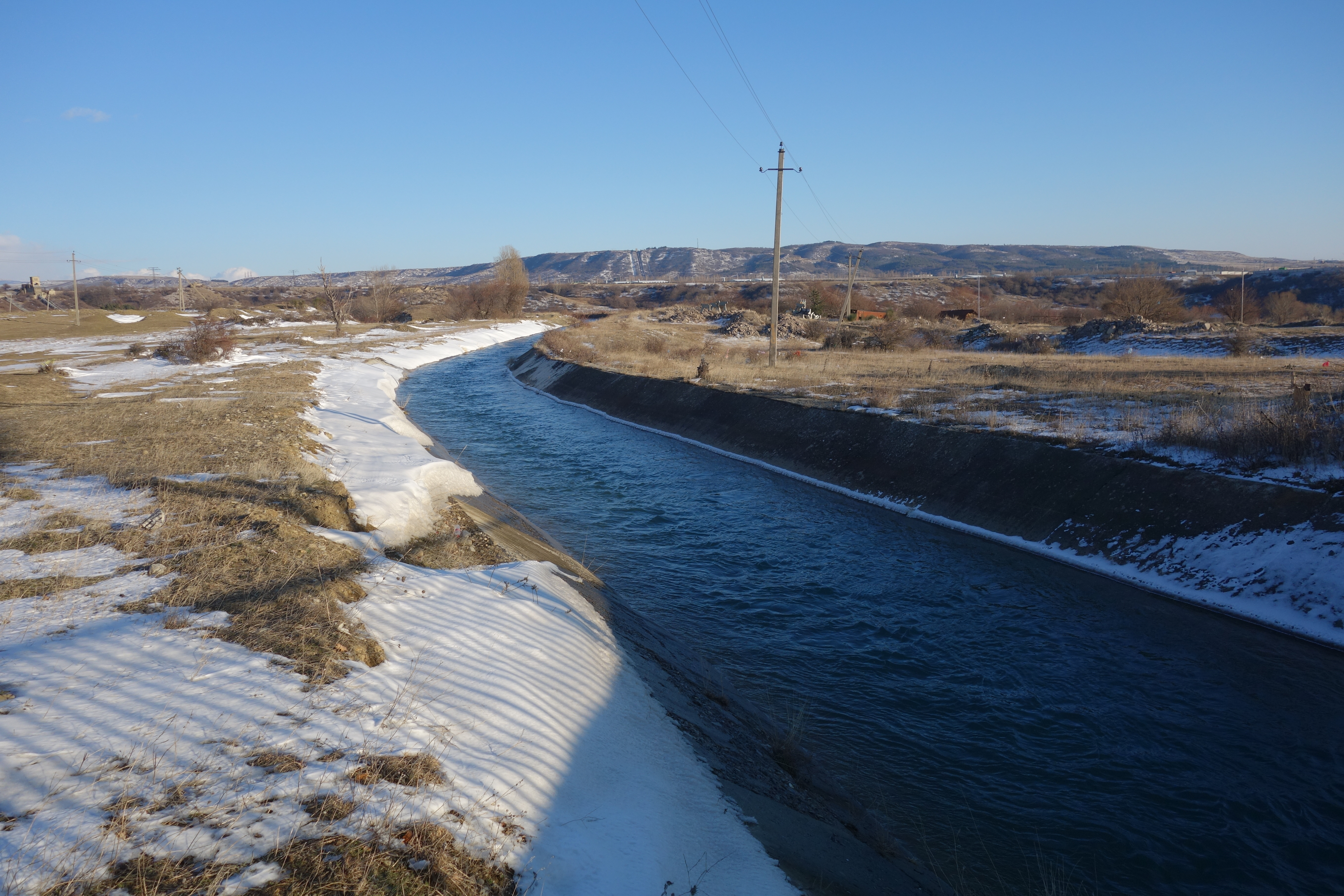 Zemo Samgori Canal (view from Tbilisi Bypass Road)